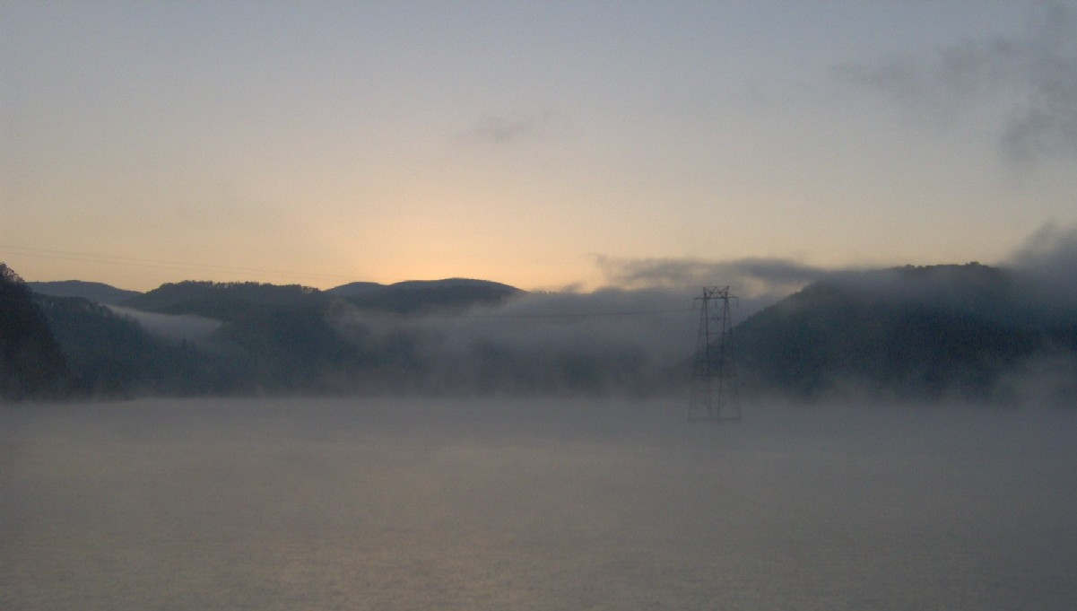 The now-submerged site of the ancient Cherokee village of Chilhowee along the Little Tennessee River in the southeastern United States. The site was flooded by the construction of Chilhowee Dam in 1957.